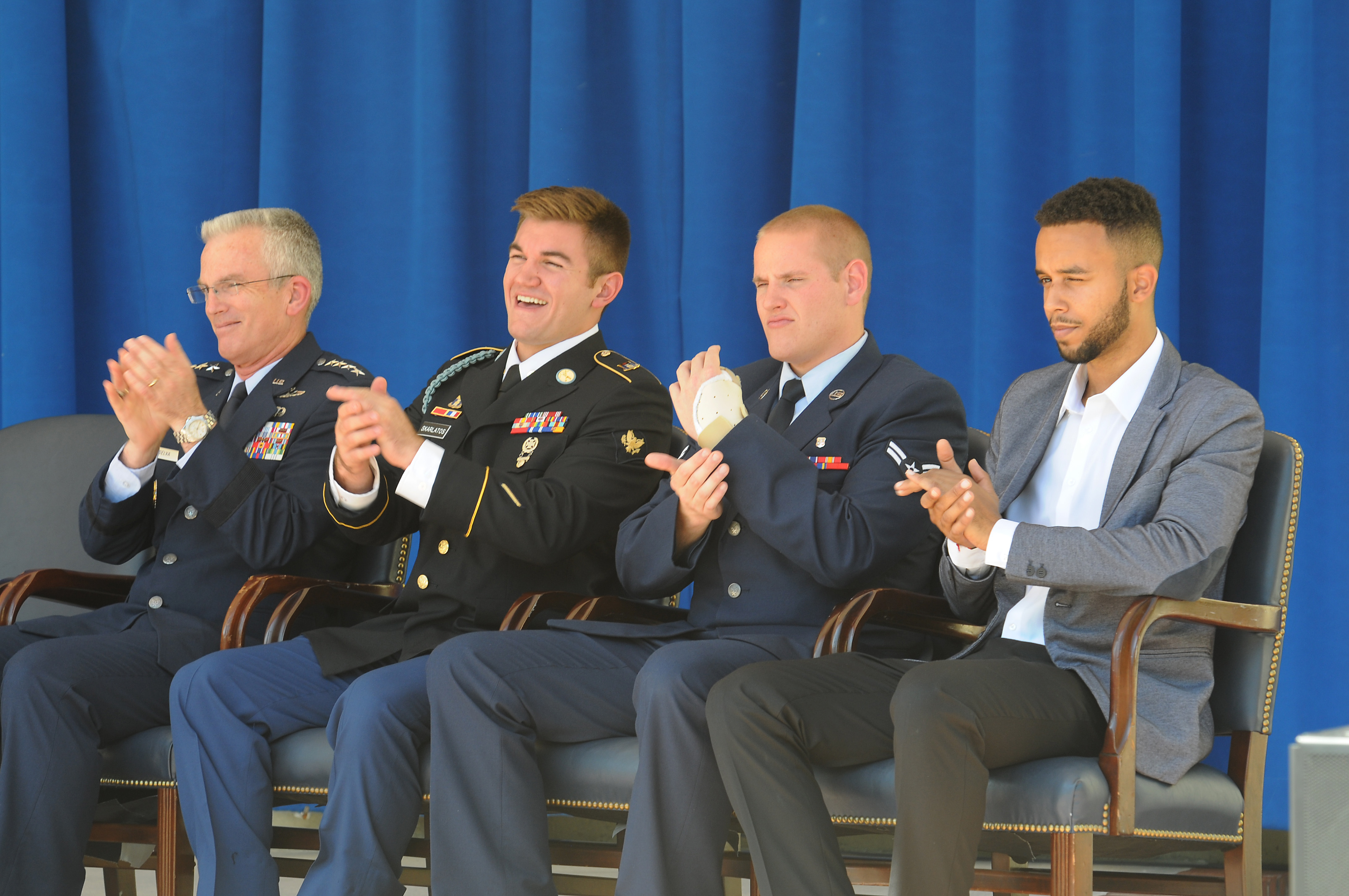 Defense Secretary Ash Carter awards the Soldier's Medal to Spc. Alek Skarlatos, Oregon National Guard, the Airman's Medal to Airman 1st Class Spencer Stone and the Defense Department Medal for Valor to Anthony Sadler, at a ceremony in the Pentagon courtyard Sept. 17, 2015. (U.S. Army National Guard photo by Staff Sgt. Michelle Gonzalez)(Released)